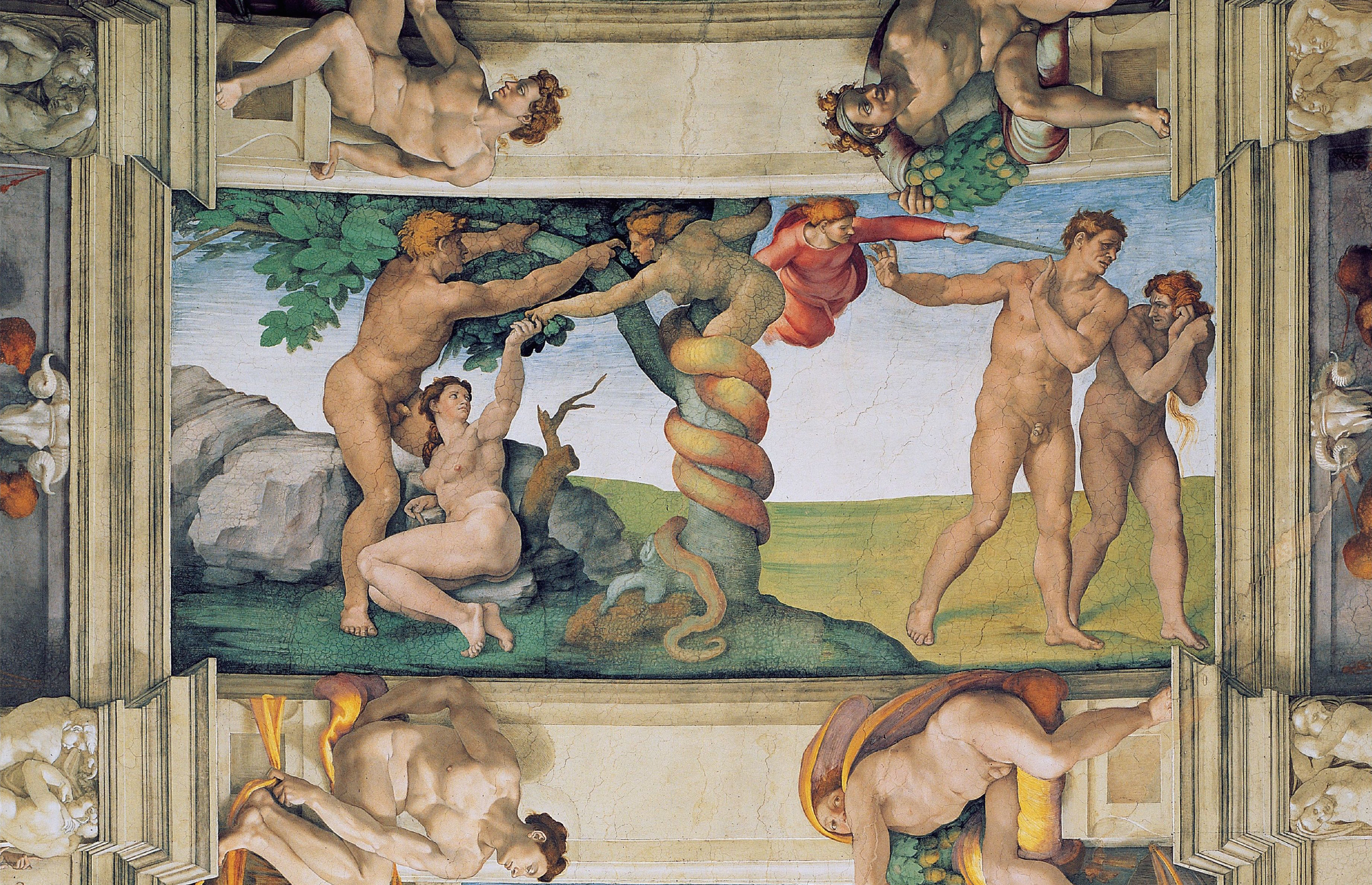 Sistine chapel ceiling.